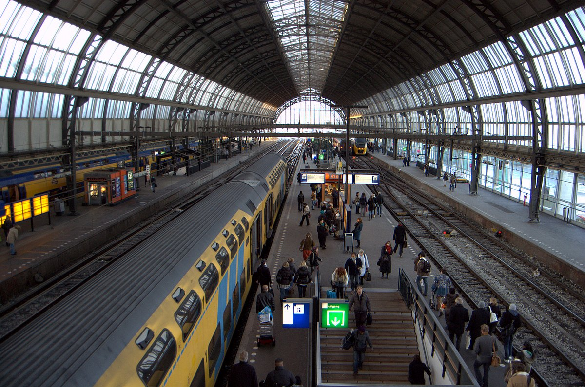 I was allowed to climb the old signal tower,to take this shot. Thanks a lot,Nederlandse Spoorwegen!